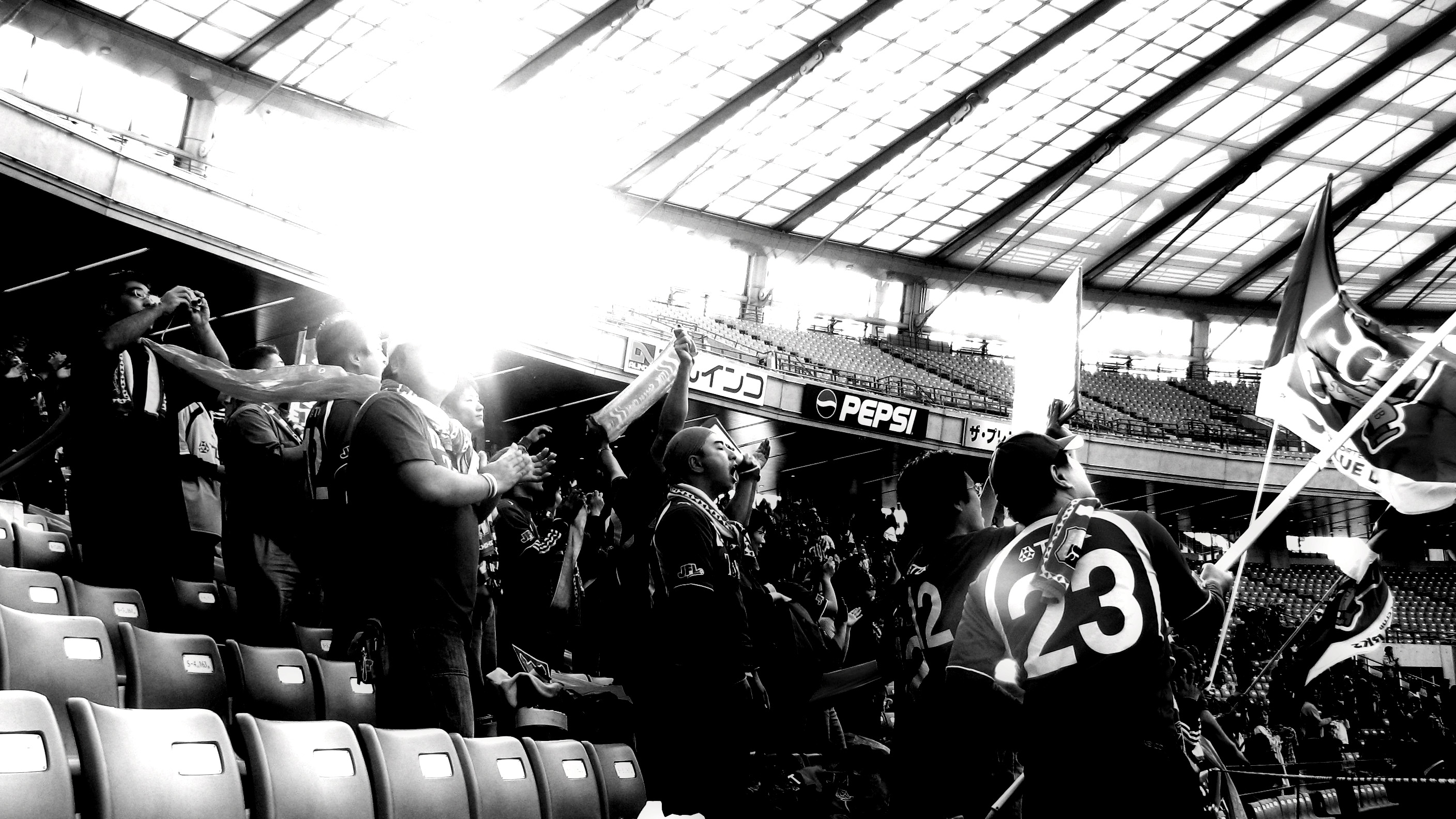 TDKSC fans